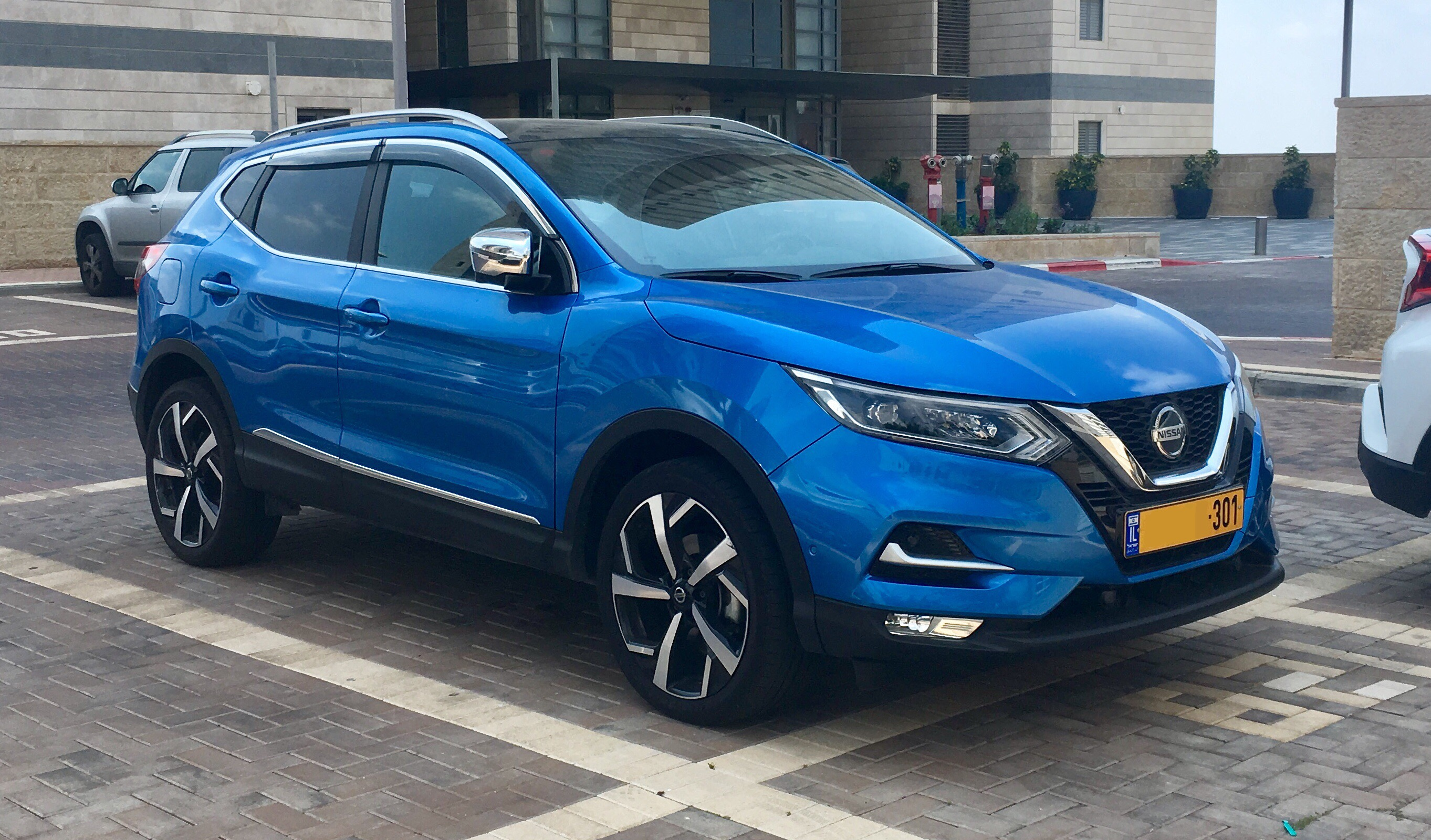 Nissan Qashqai Mk2 (Facelift)